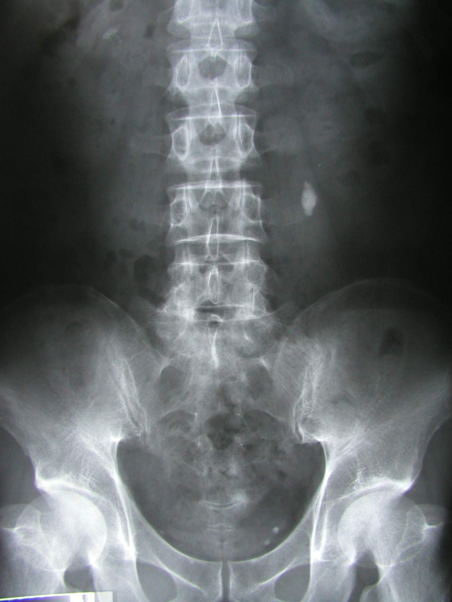 Created by Morning2k. A KUB film shows an radiopaque lesion over left paraspinal area, indicating a large ureteral stone.